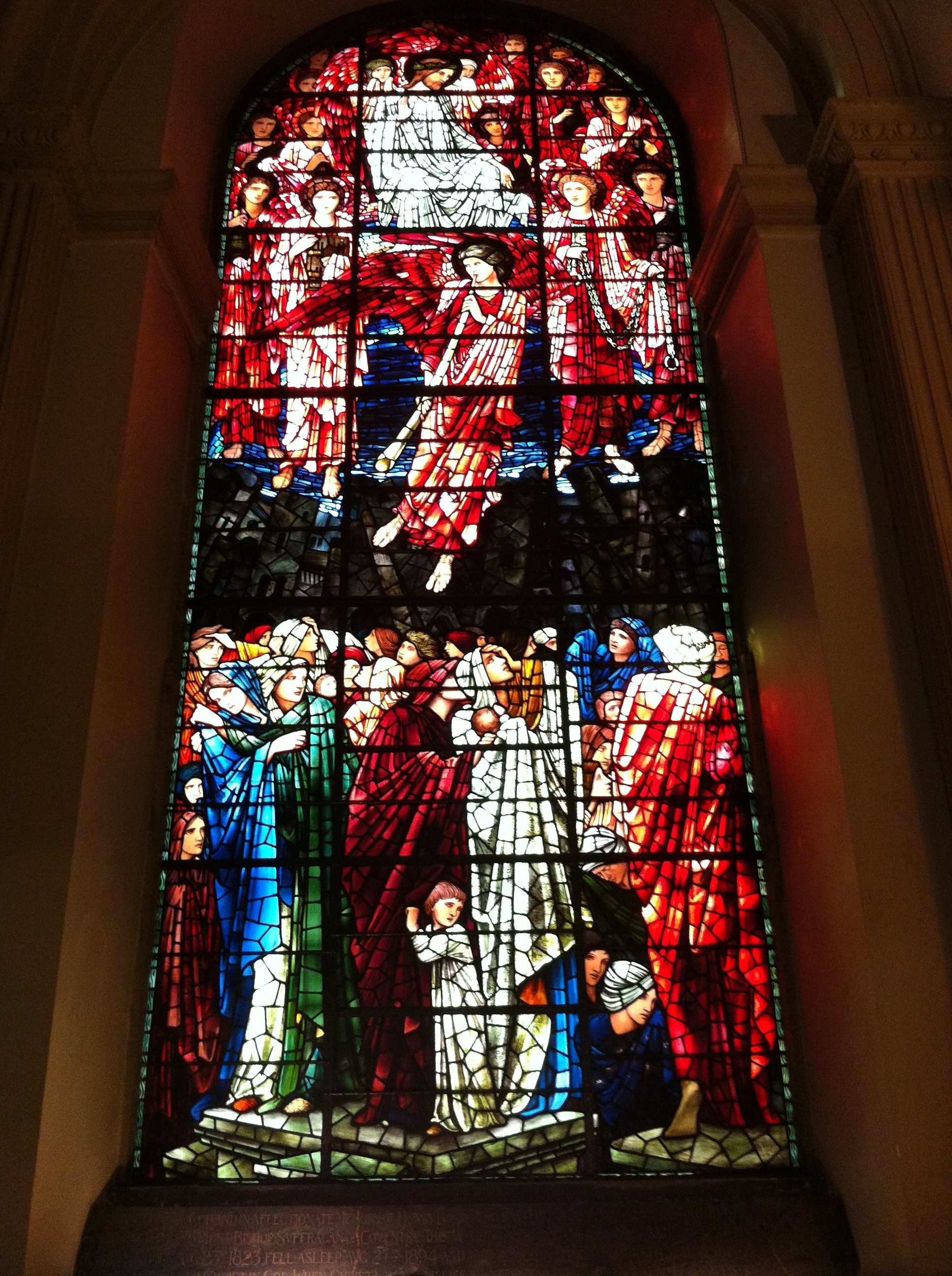 The Last Judgment in stained glass by Edward Burne Jones (1897). In memory of Bishop Bowlby of Coventry.